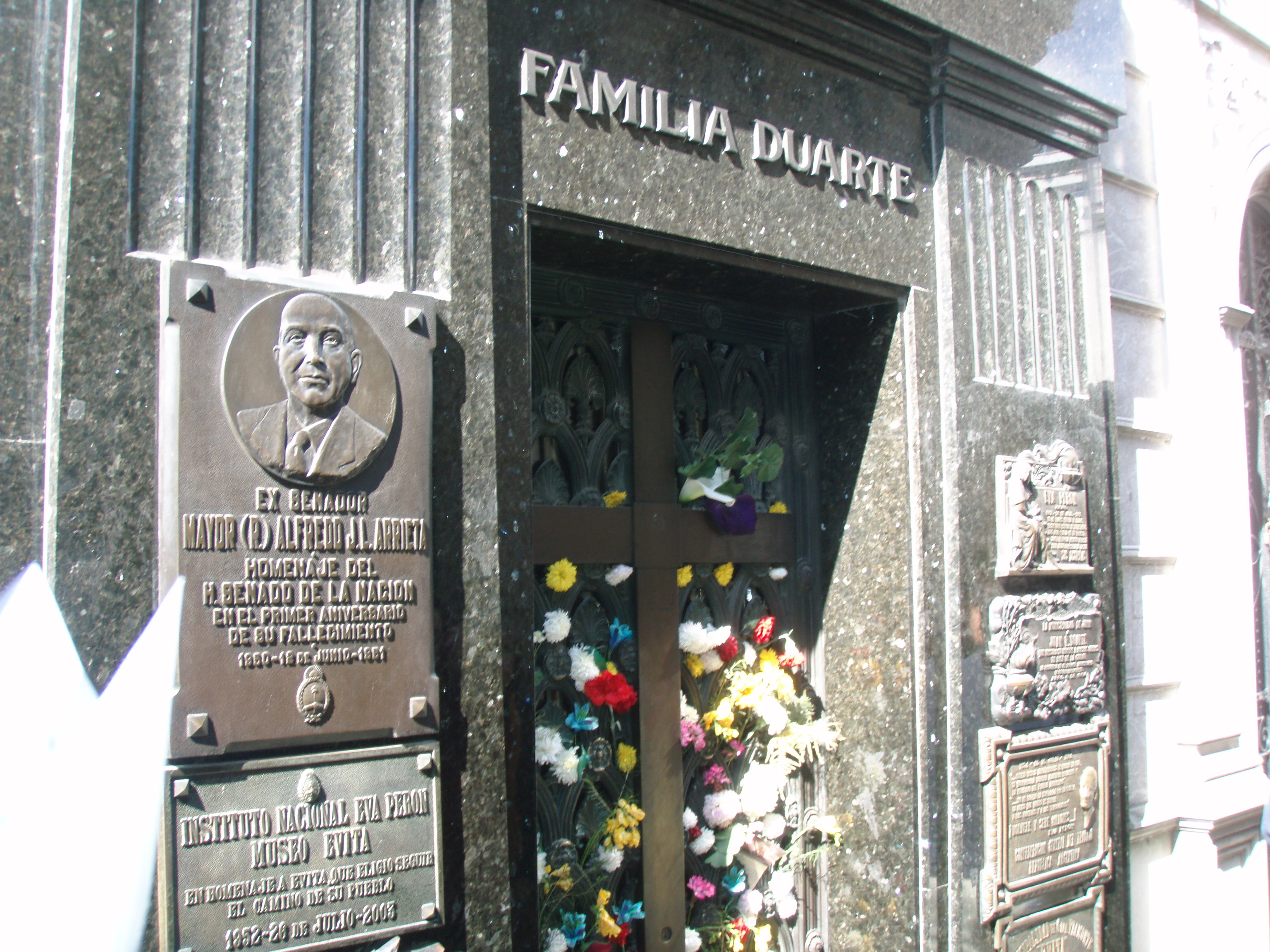 Tomb of Eva Peron